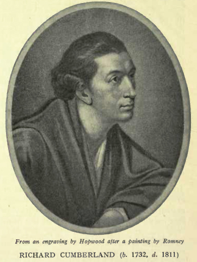 engraving of Richard Cumberland, plawright